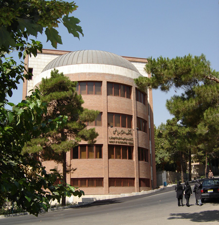 Faculty of Mathematics, SBU, tehran